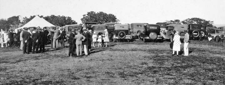 The official opening of The Hummock Lookout at Sloping Hummock, Burnett Shire. (The original photograph caption makes reference to the opening by the Royal Automobile Club of Queensland (RACQ).)